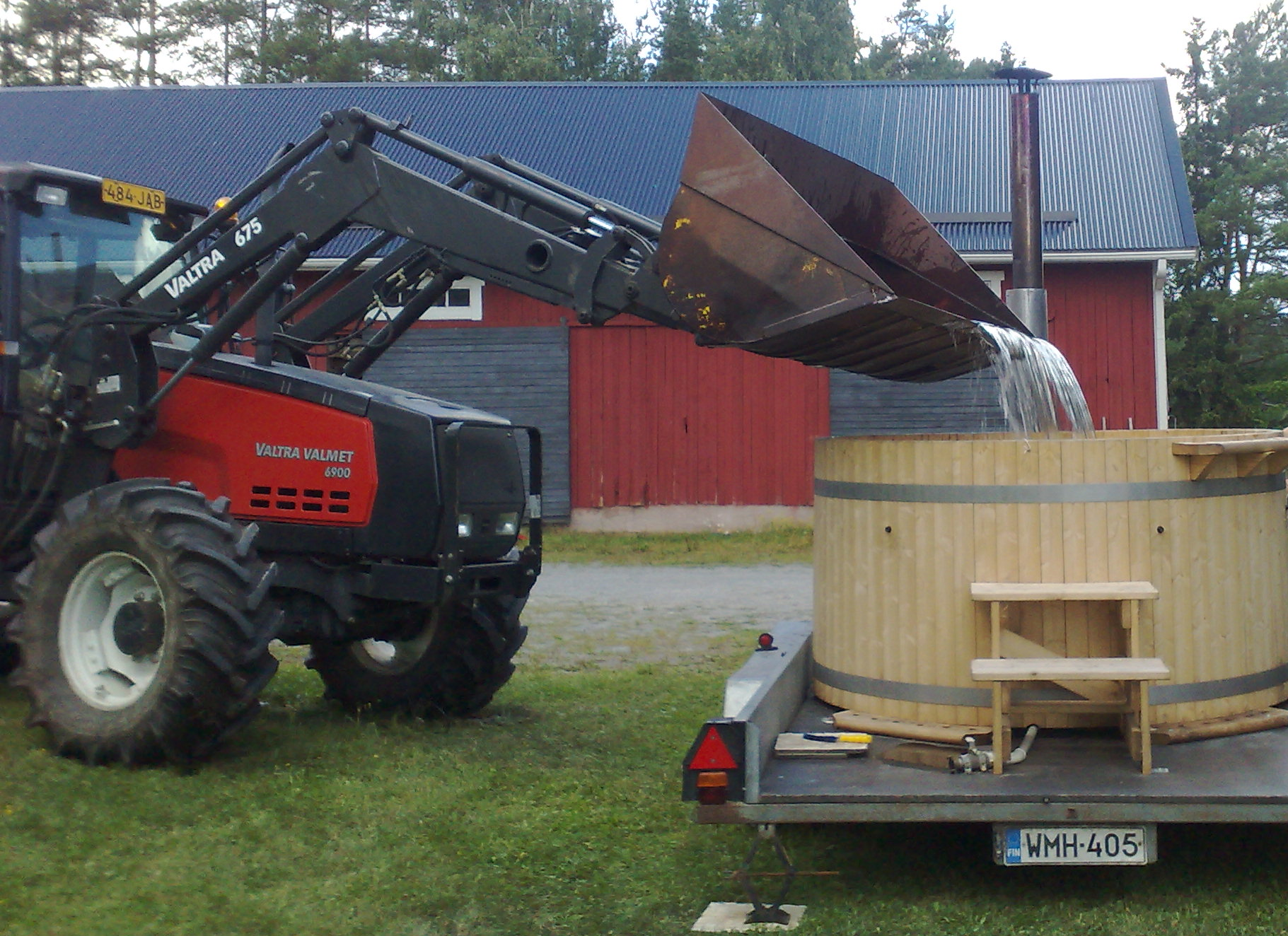 Valtra Valmet 6900 tractor with Valtra front end loader filling a bath with water somewhere in Finland